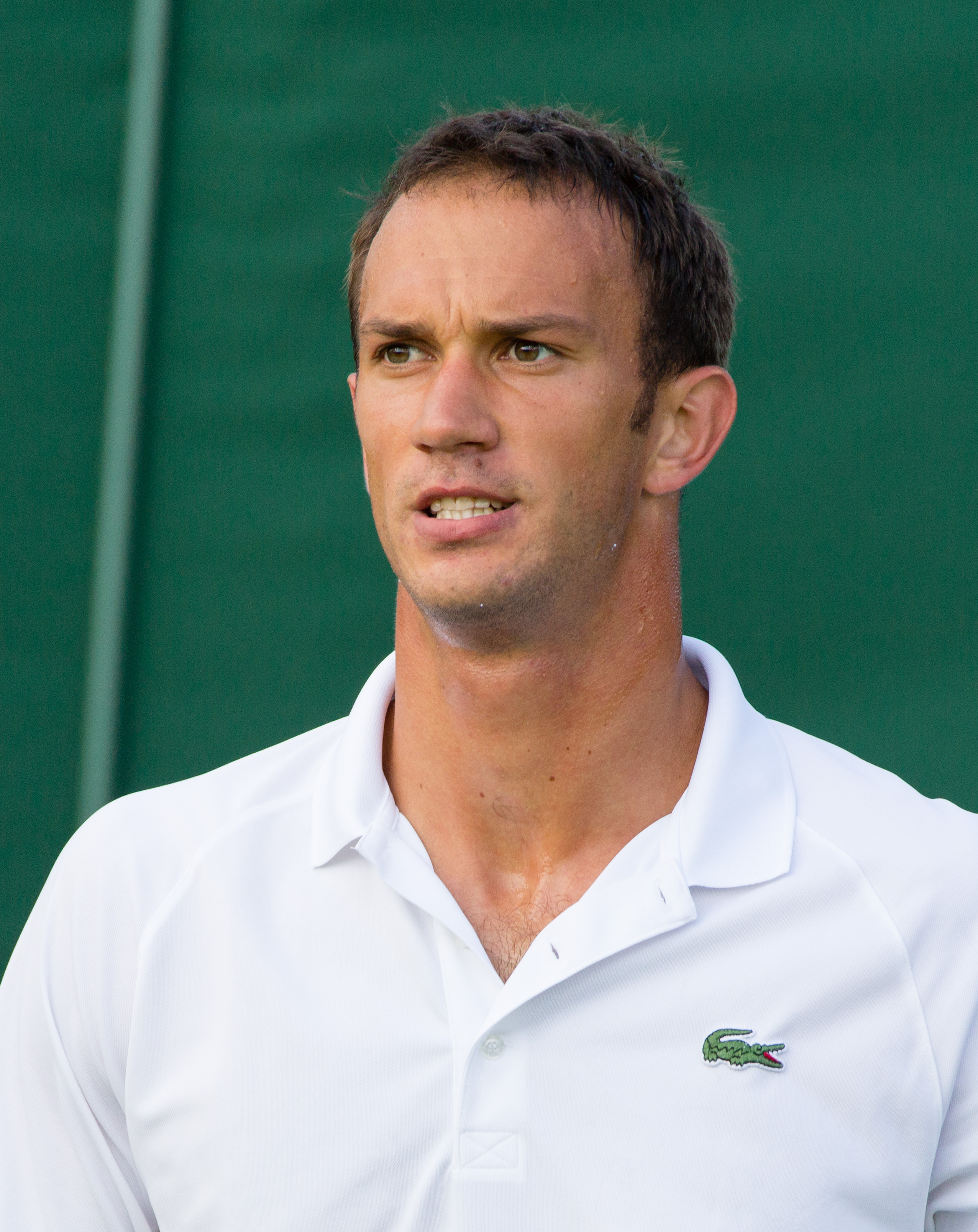 Ante Pavić competing in the third round of the 2015 Wimbledon Qualifying Tournament at the Bank of England Sports Grounds in Roehampton, England. The winners of three rounds of competition qualify for the main draw of Wimbledon the following week.